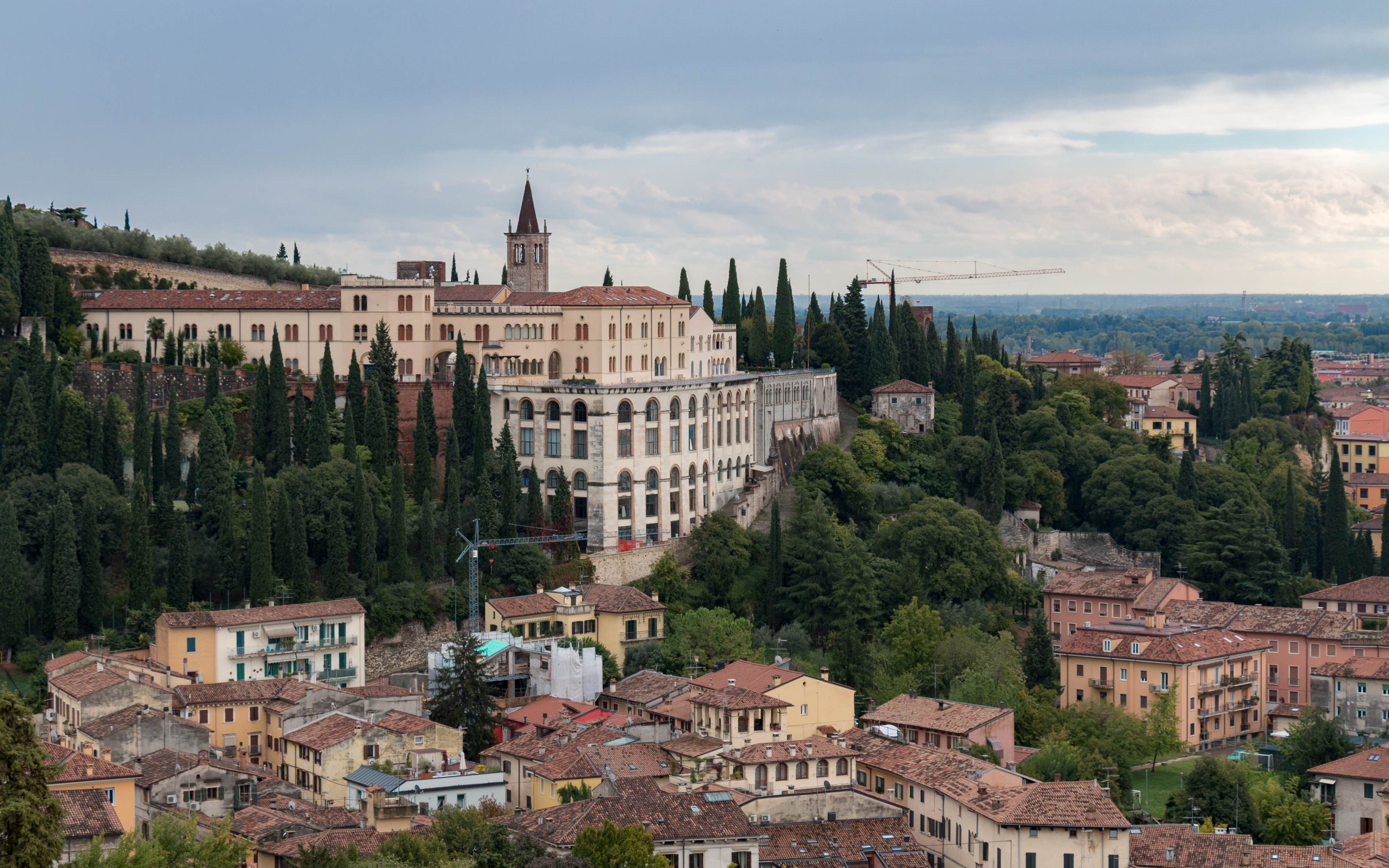 Istituto Don Calabria